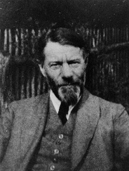 Max Weber